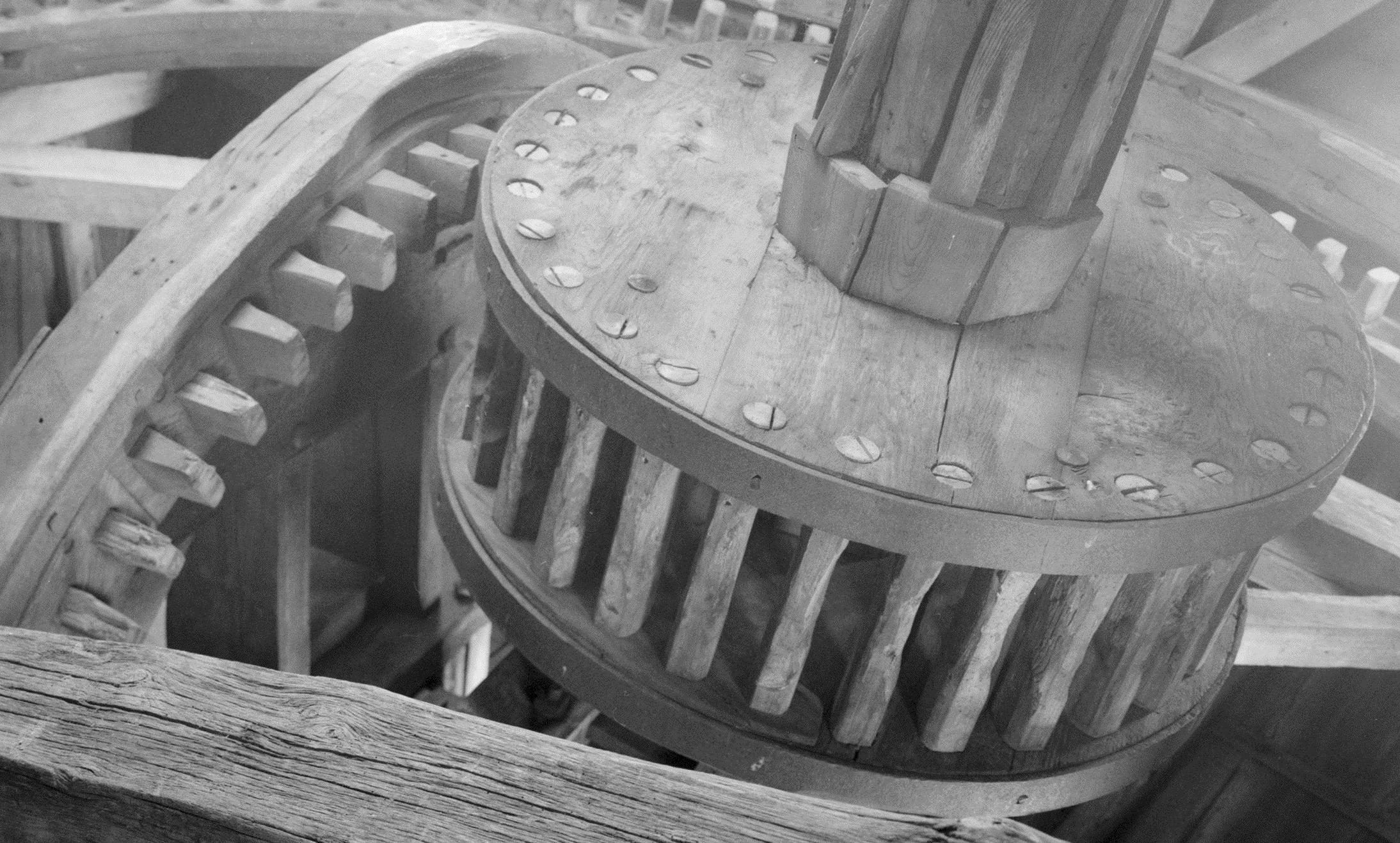 Lantern/cage gear detail from interior view of Pantigo Windmill, Long Island, New York. Photograph courtesy of the Historic American Buildings Survey, Library of Congress, Washington, D. C.